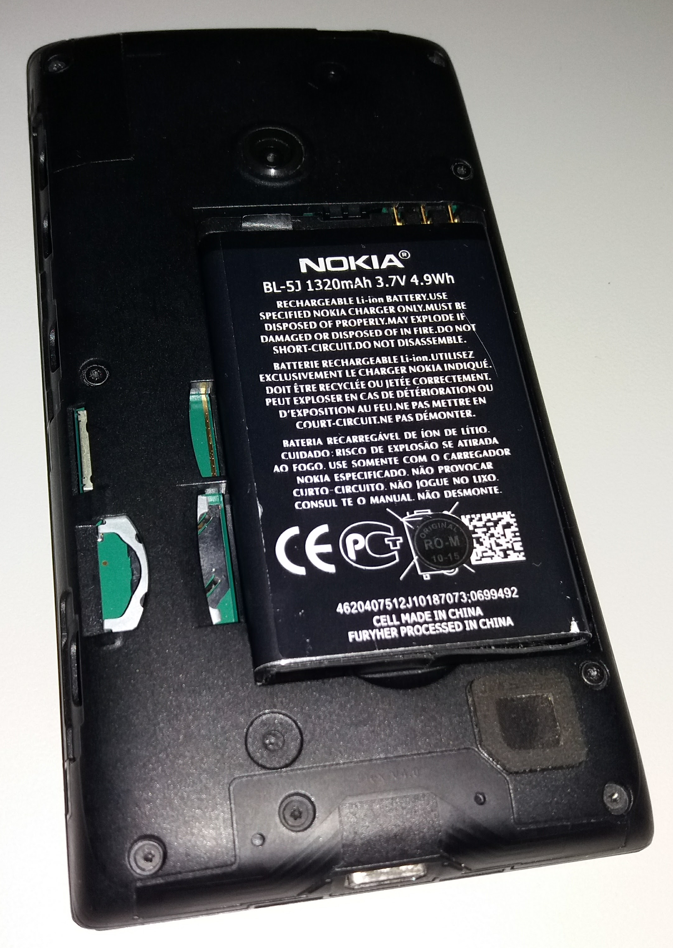 A Nokia Lumia 520 Lumia Denim with Windows Phone 8.1